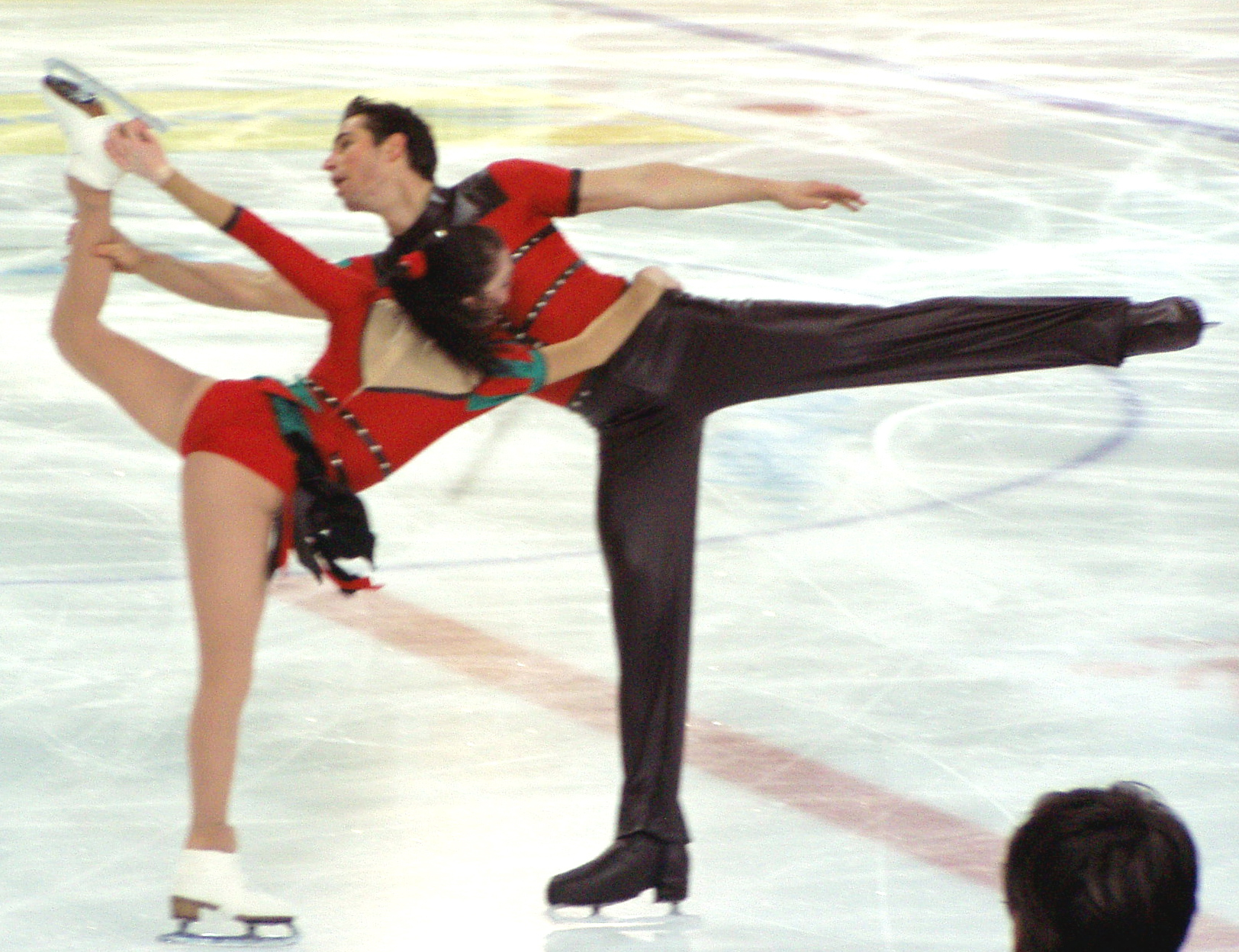 Eva-Maria Fitze and Rico Rex at their free program at the German championships 2006 in Berlin.